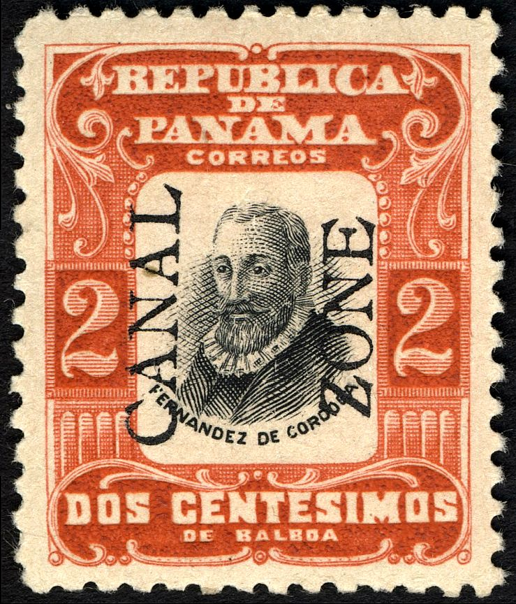 Canal Zone Postage stamp